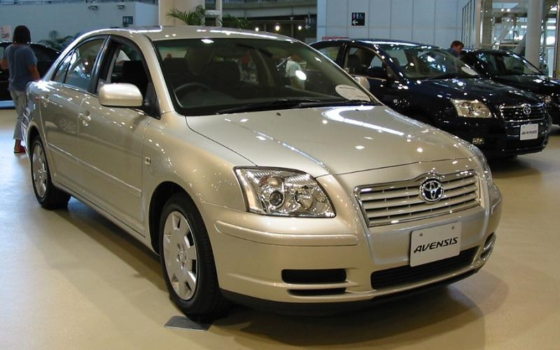 Toyota Avensis(2004) taken in Showroom of Toyota-MEGAWEB